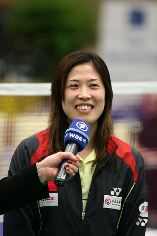 Gao Ling